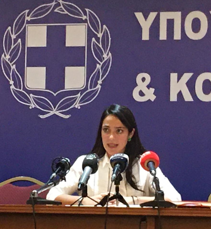 Domna Michailidou during a Press Conference at the Ministry of Labour and Social Affairs (2019)